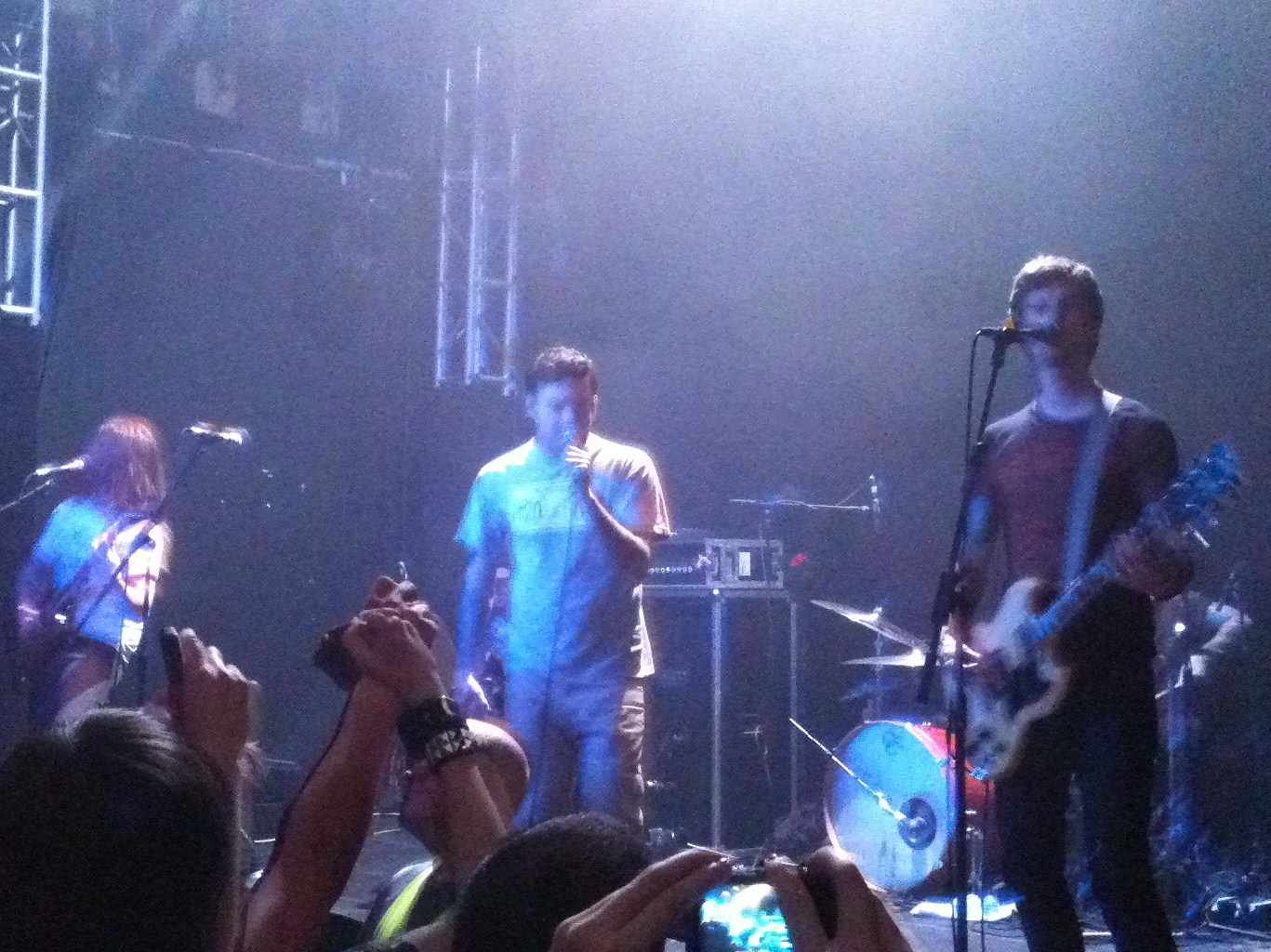 Senses Fail performing at the O2 Academy Islington